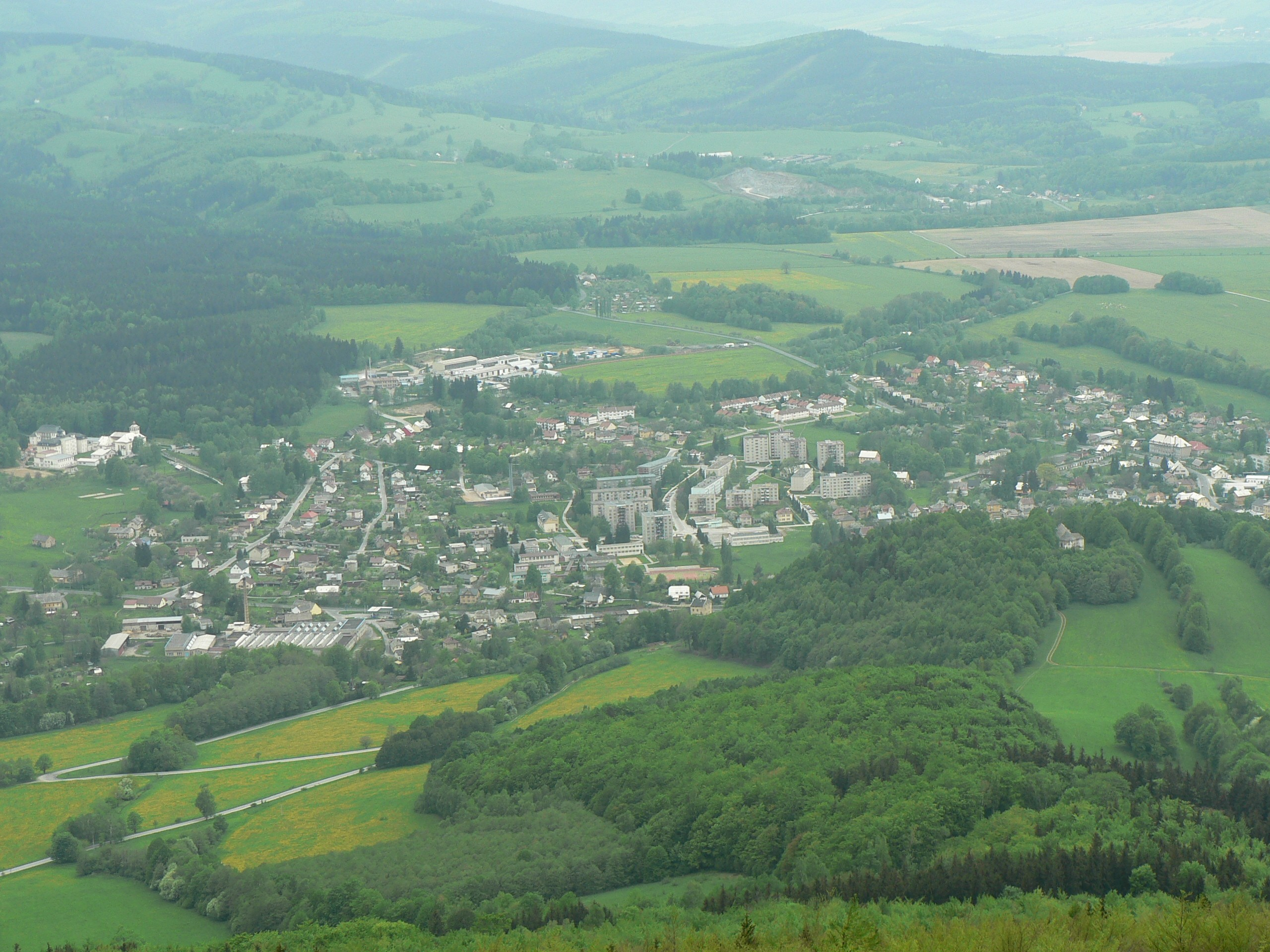 Zlaté Hory - view from the Biskupská kupa (Bishops Hill)